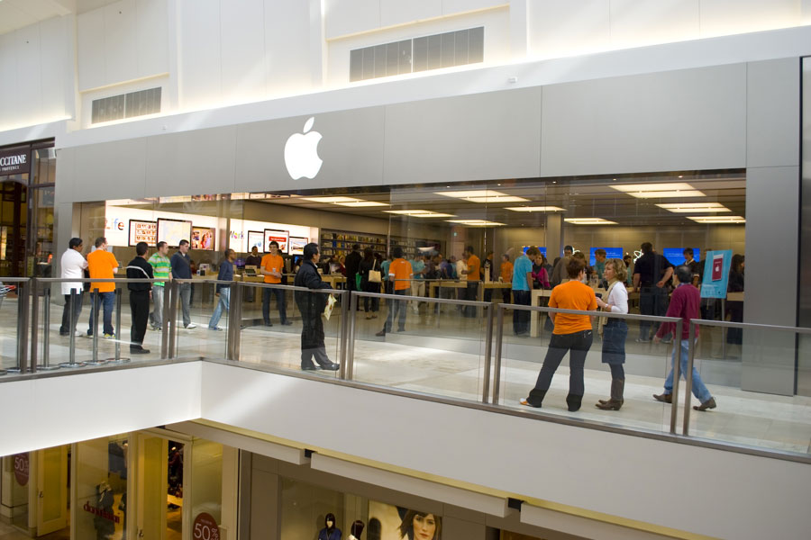 The Apple STore in Westfiled Doncaster, Victoria, Australia